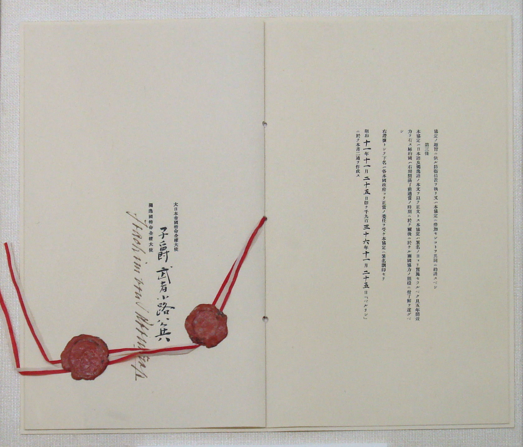 Japan_Germany_Anti_Commintern_Pact_25_November_1936